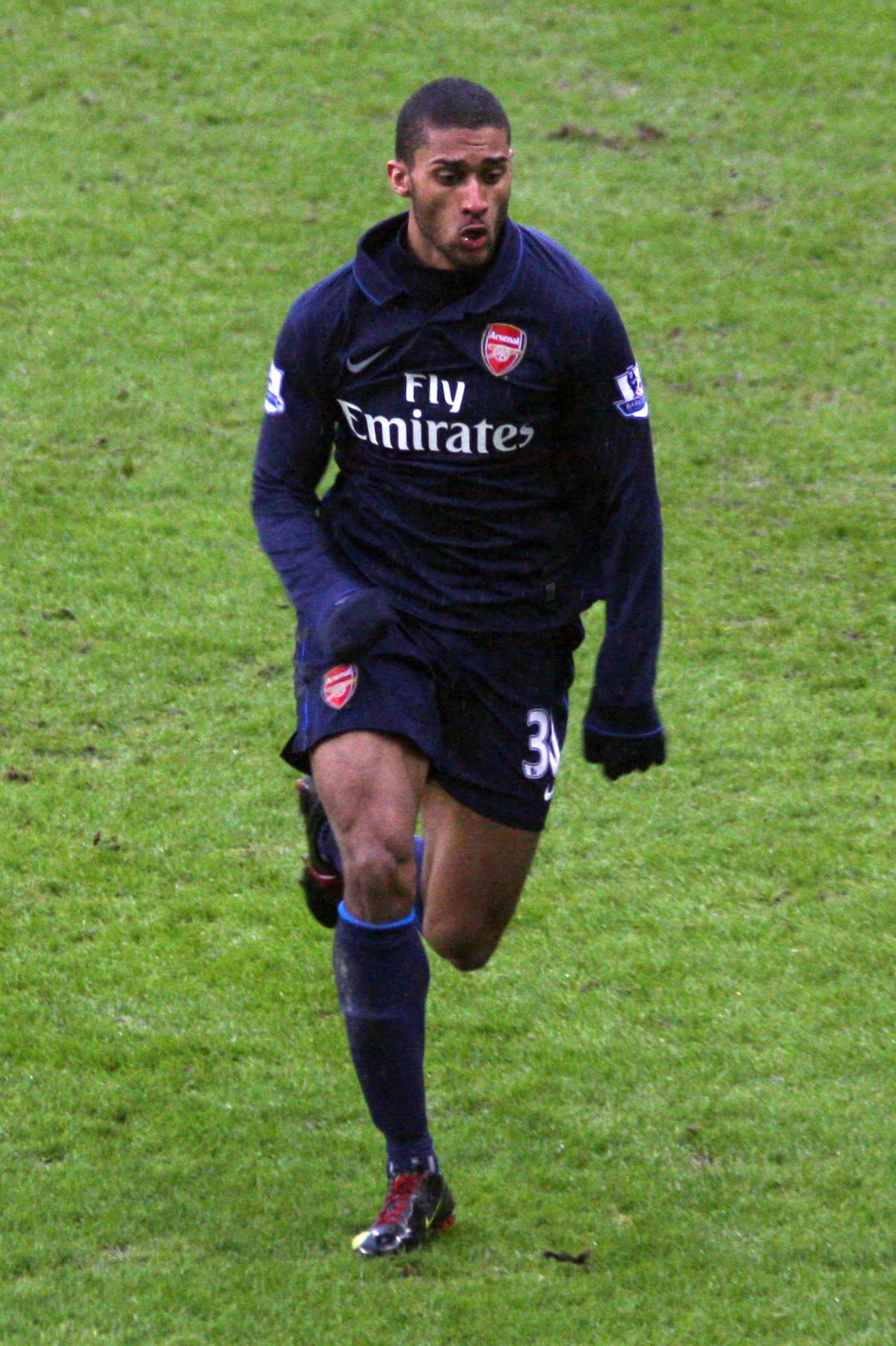 Stoke-on-Trent, Britannia Stadium, January 24, 2010. 2009–10 FA Cup, Fourth Round, Stoke City FC v Arsenal FC (3–1). Gunners' defender Armand Traoré.